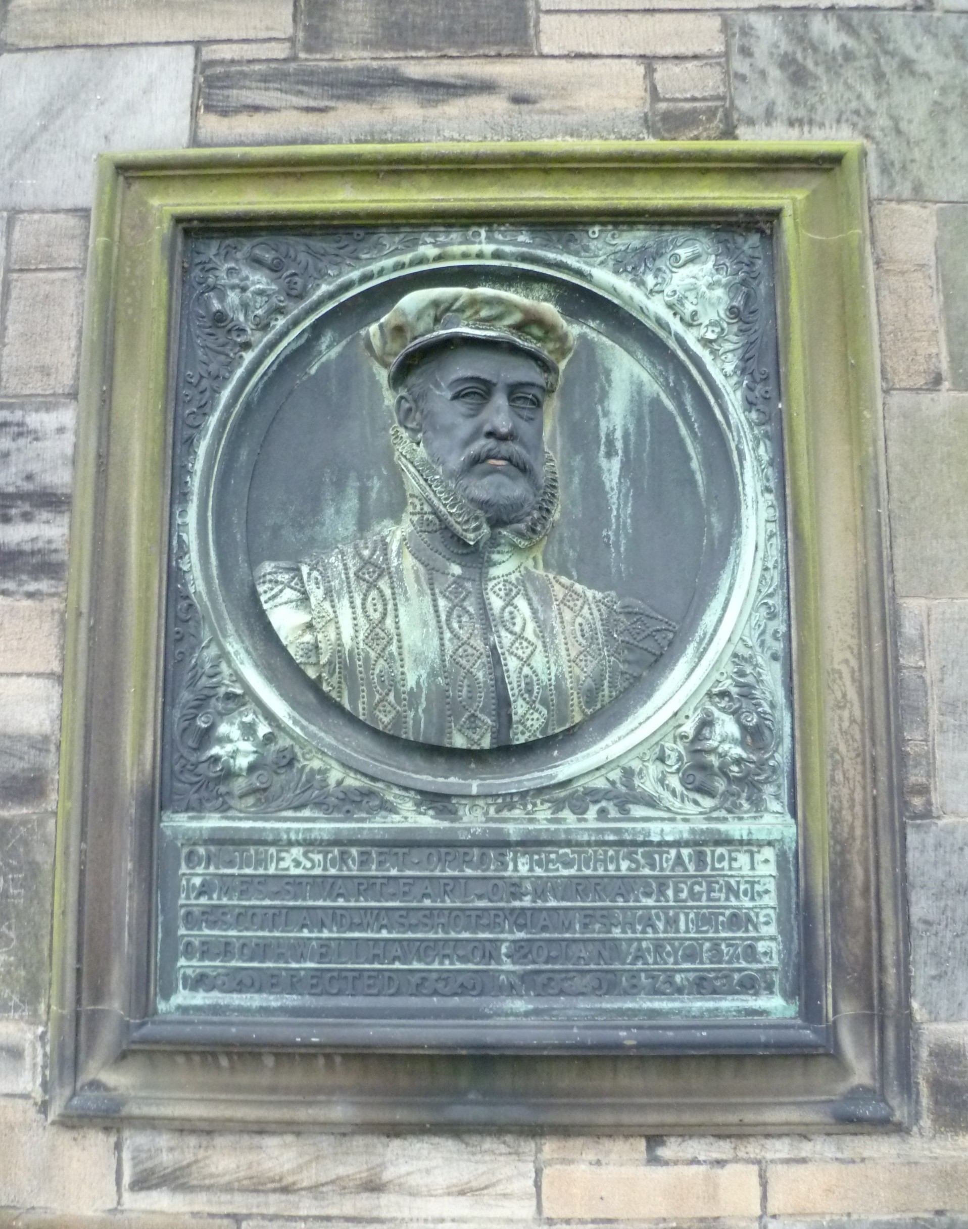 Plaque close to the spot where the Regent Moray was assassinated, Linlithgow High Street. It reads, "On the street opposite this tablet James Stewart Earl of Murray Regent of Scotland was shot by James Hamilton of Bothwellhaugh on 20 January 1570. Erected in 1875.